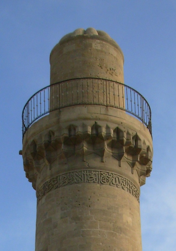 Minaret of Shirvanshah's Mosque